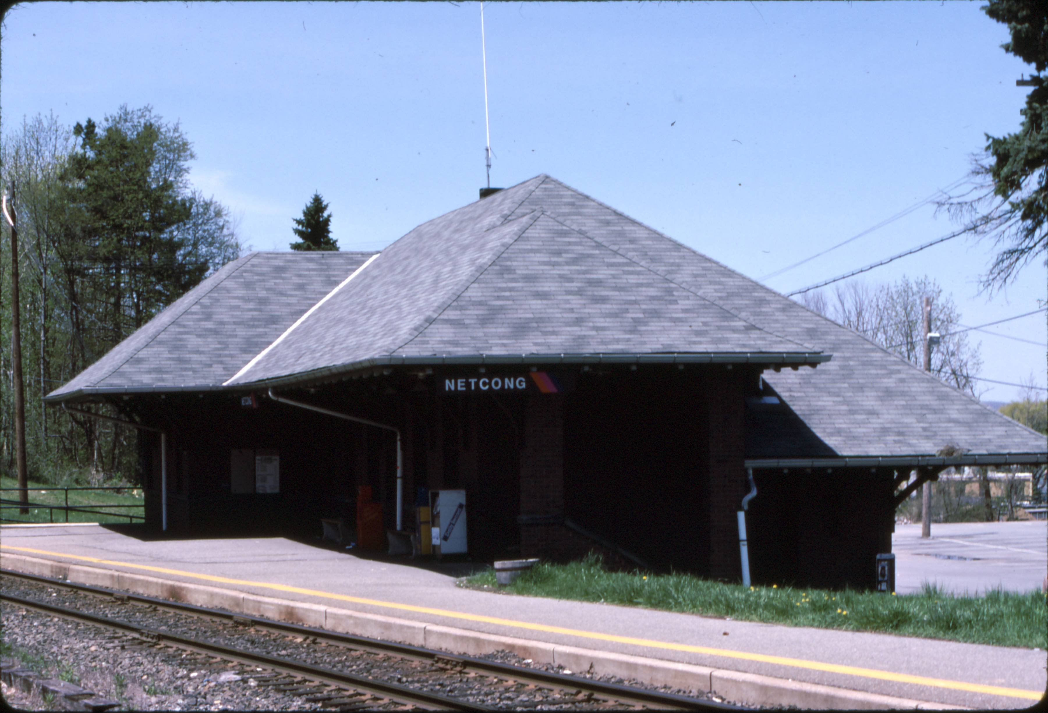 Netcong Station, a New Jersey Transit station in Netcong, New Jersey. As seen in 1990, looking westbound.